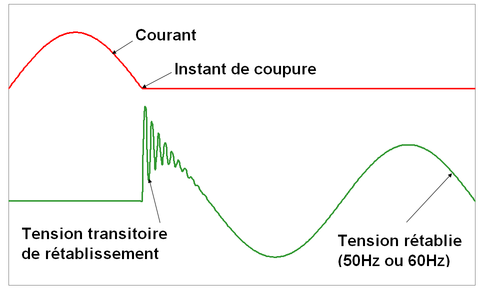 Current interruption and transient recovery voltage (in french)